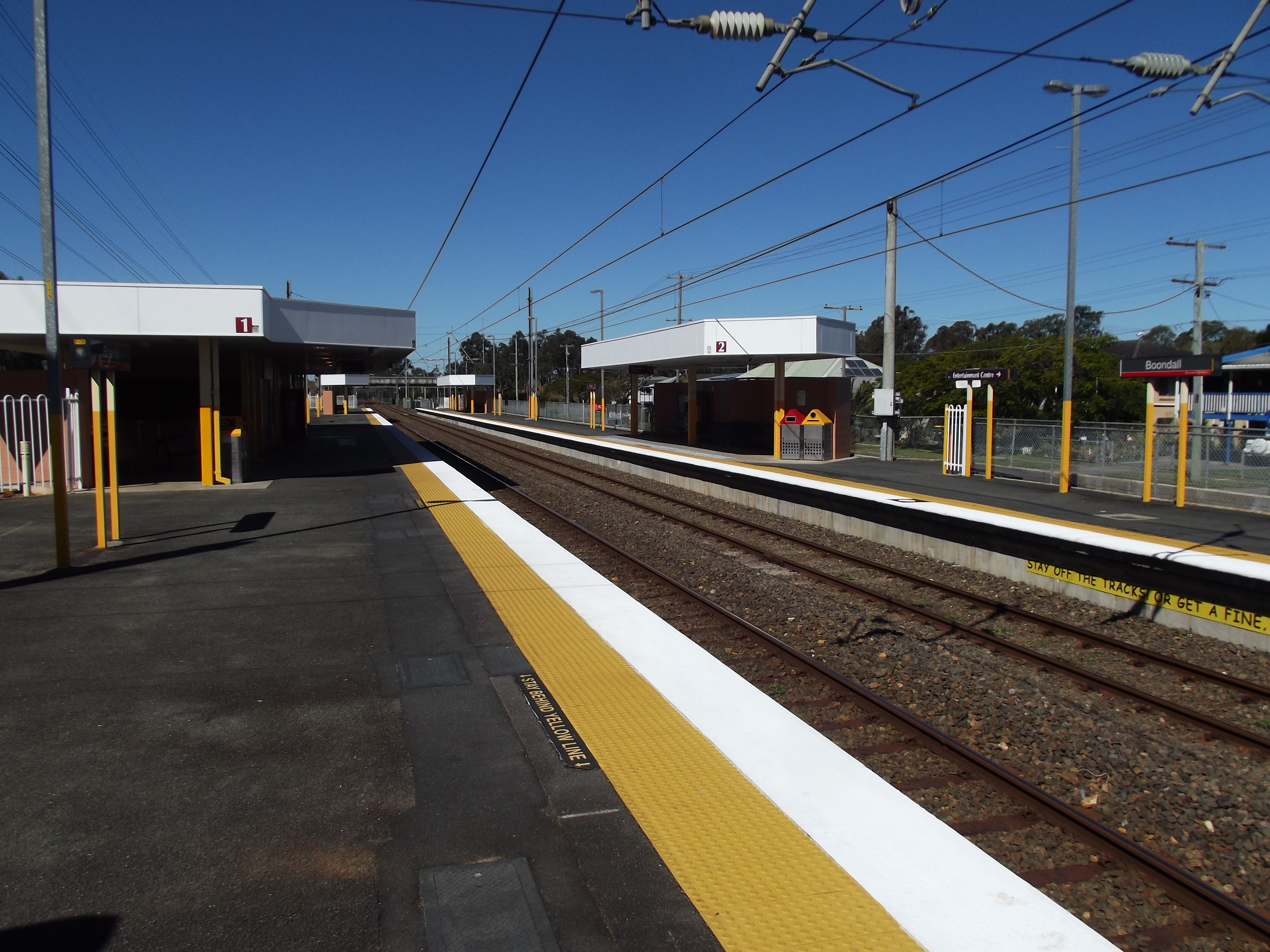 A photo of the Boondall railway station, operated by TransLink, located in Brisbane, Queensland.